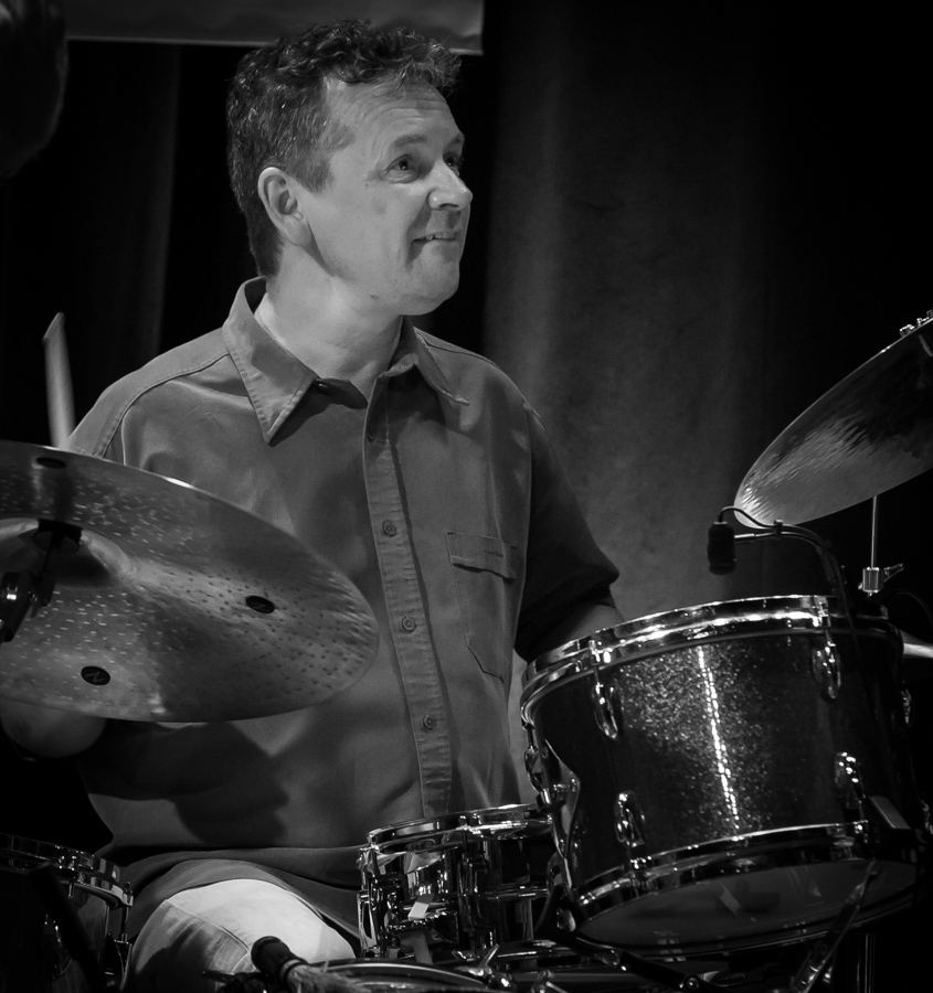 Stein Inge Brækhus performs with Cutting Edge at the stage of Nasjonal Jazzscene Victoria. The concert was part of the Oslo Jazz Festival in Norway and took place on 17. August 2016. Lineup:Rune Klakegg (keyboard)Morten Halle (tenor saxophone)Knut Værnes (guitar)Edvard Askeland (bass guitar)Frank Jakobsen (drums)Stein Inge Brækhus (drums)